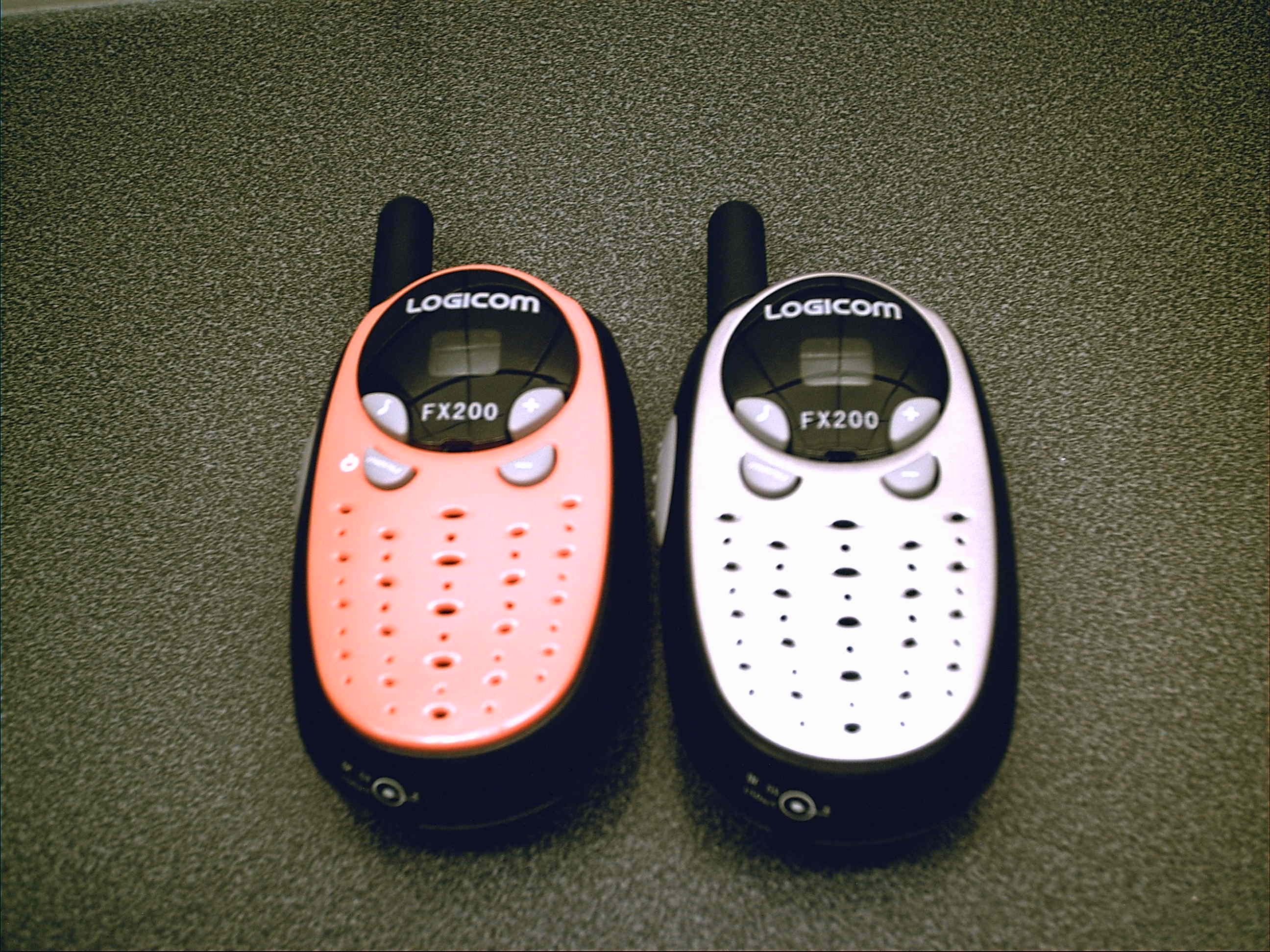 A picture of two PMR446 walkie-talkies sold in the United Kingdom. UHF consumer walkie-talkies sold in other countries tend to have very similar designs but operate on different frequency allocations.